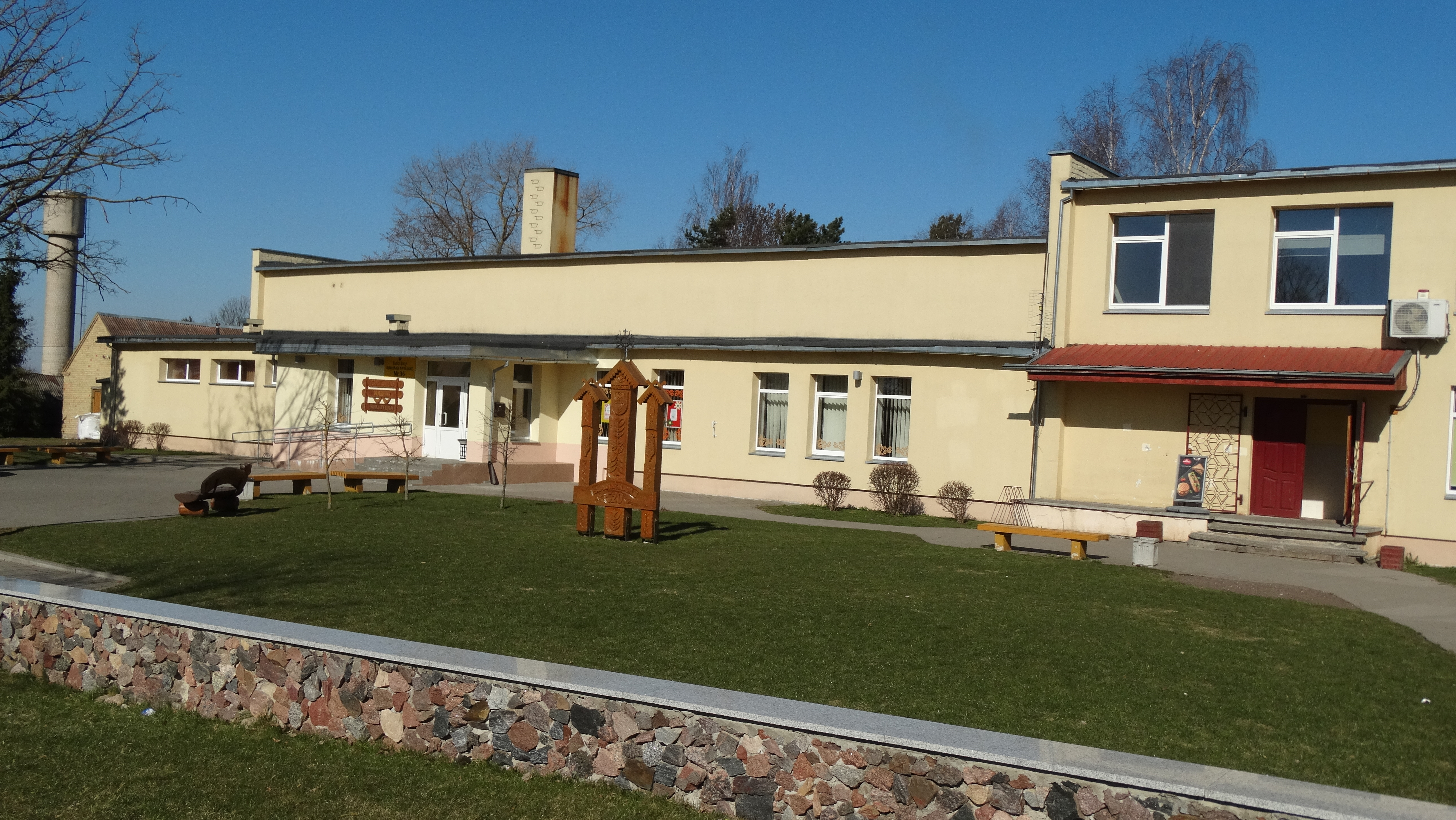 Šiaulėnai, Radviliškis District, Lithuania